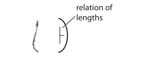 Standard Event System character depiction